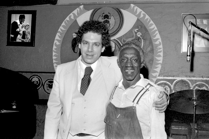 Todd Barkan, left, proprietor of Keystone Korner jazz club, San Francisco, and drummer and leader of the Jazz Messengers, Art Blakey, at Keystone Korner. 12/27/79. Photo by Brian McMillen /